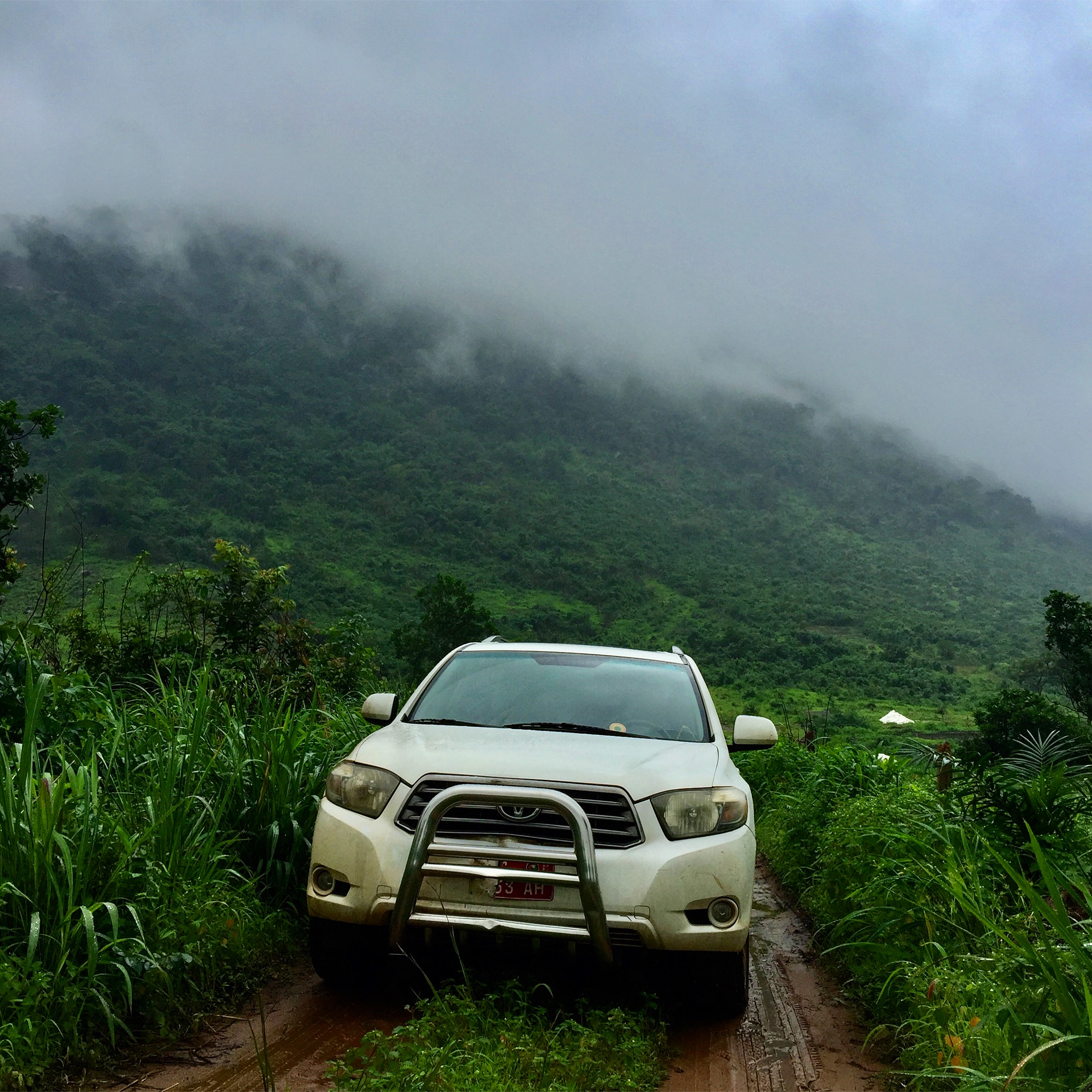 This is an image with the theme "Africa on the Move or Transport" from: Guinea